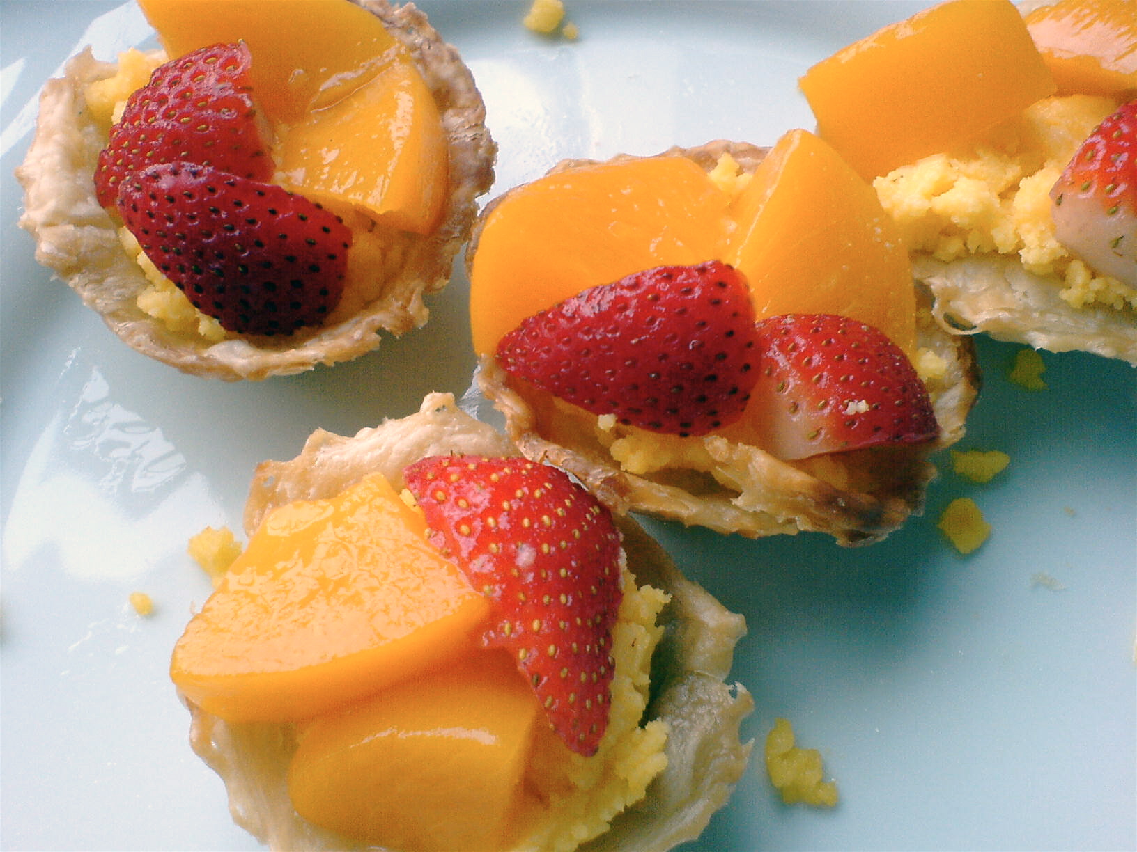 Handmade fruit tarts made with strawberry and peach